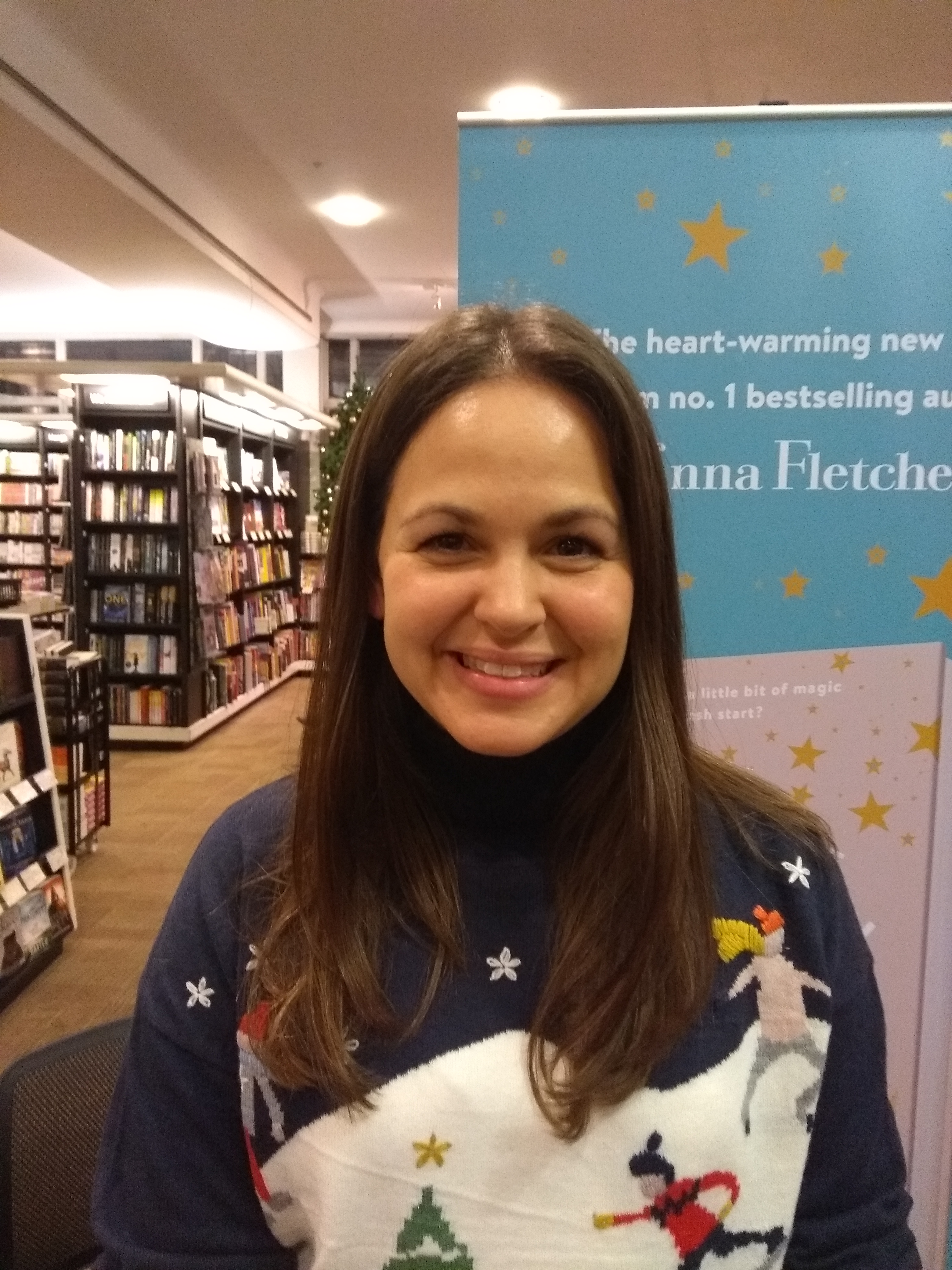 Giovanna Fletcher, 20171207